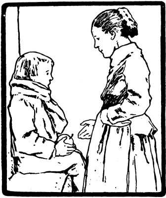 Illustration by Otto Ubbelohde to the fairy tale The Juniper Tree